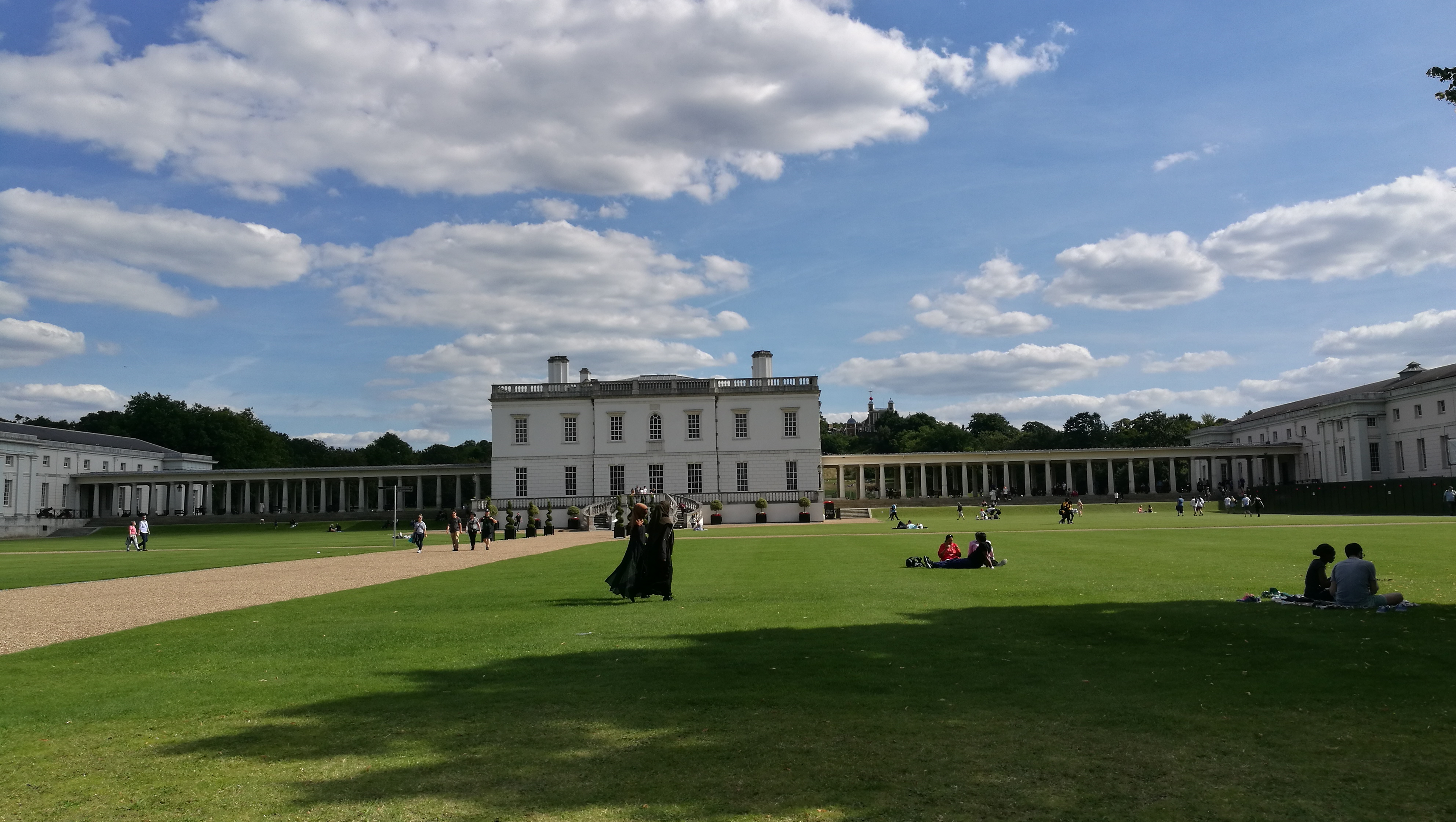 Royal Greenwich Observatory on the back.